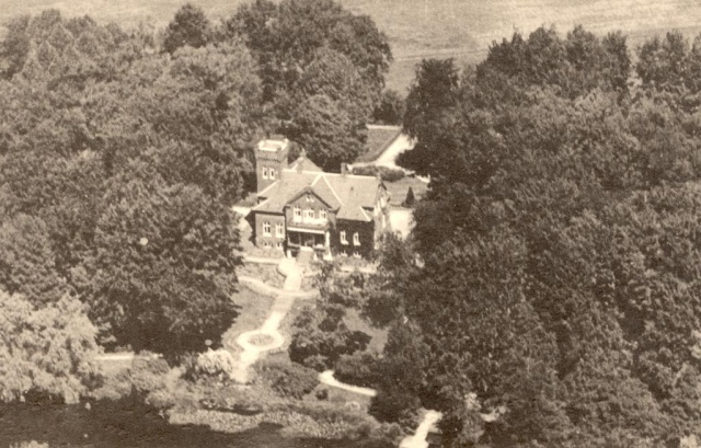 Aerial of Havreholm Slot in Helsingør Kommune, Denmark